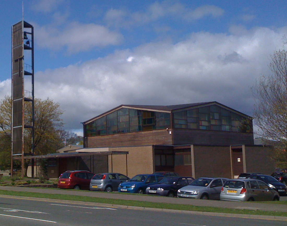 A-listed modernist church located in Glenrothes town centre.